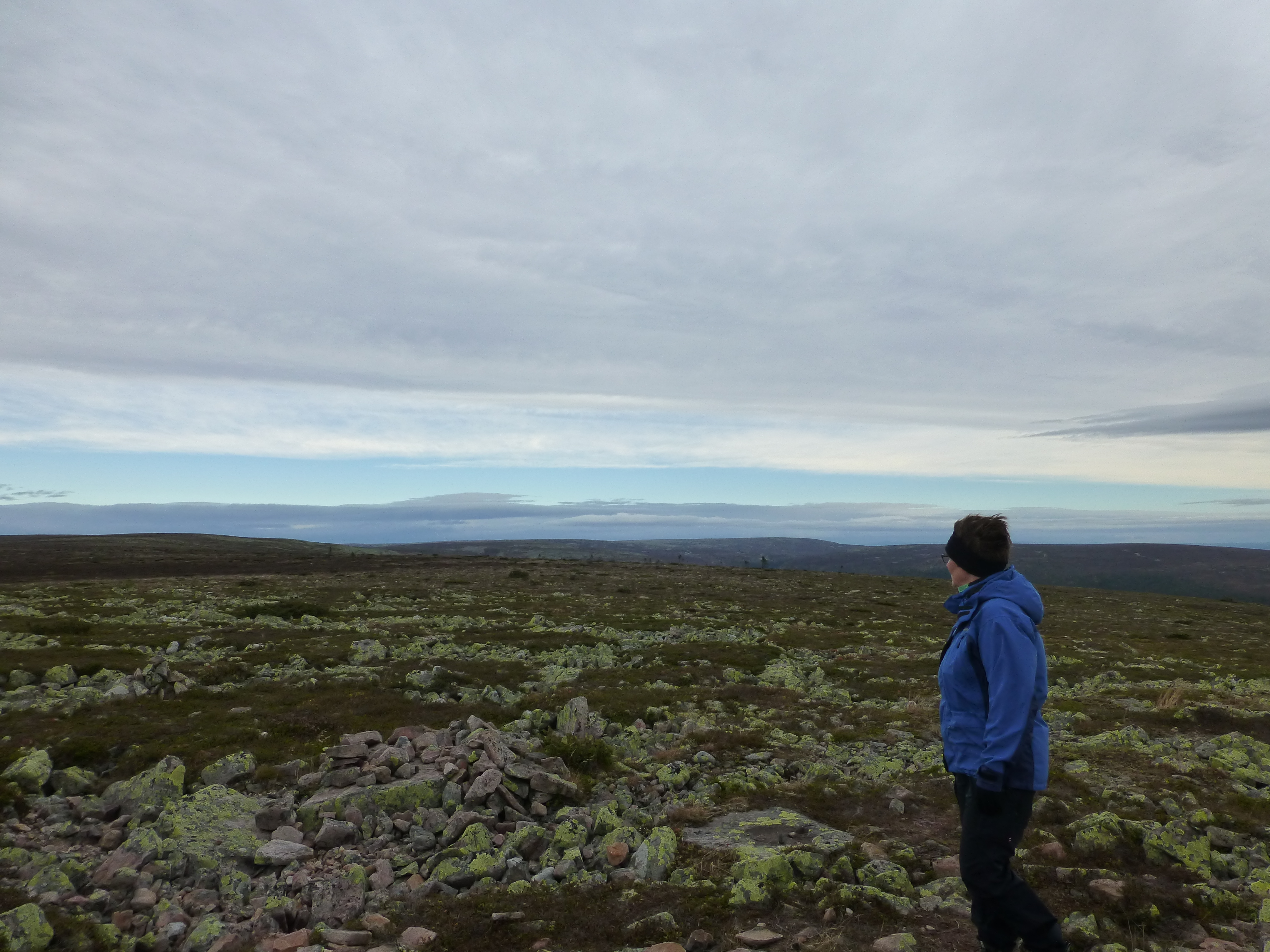 On the southern plateau of Fulufjellet nasjonalpark, Hedmark, Norway